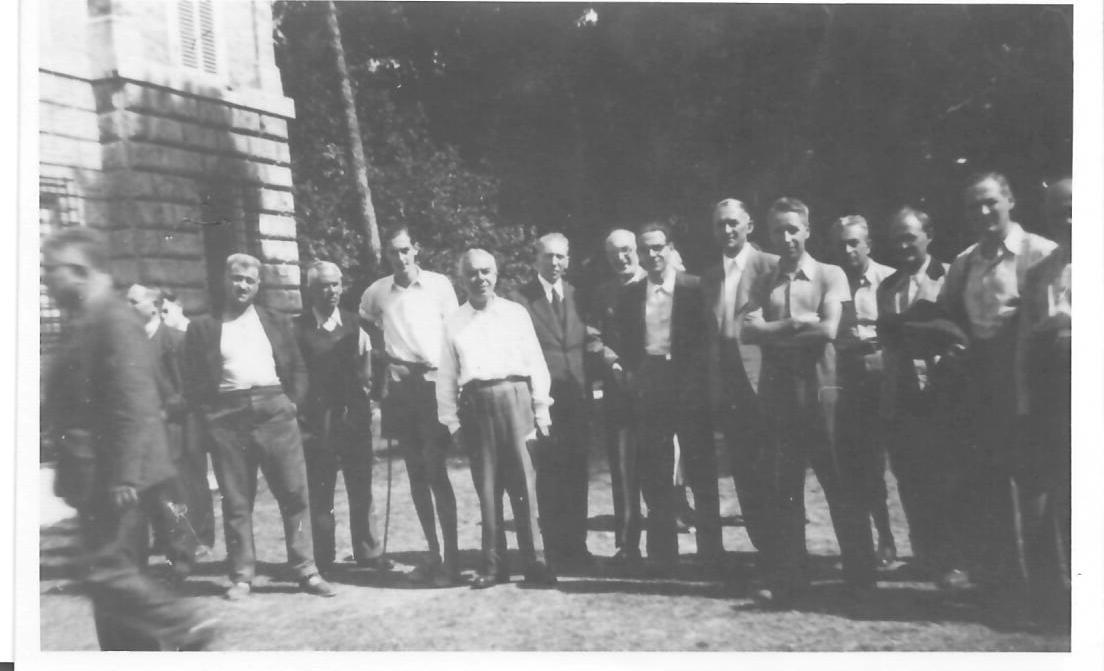 A group of internees at Urbisaglia Internment Camp